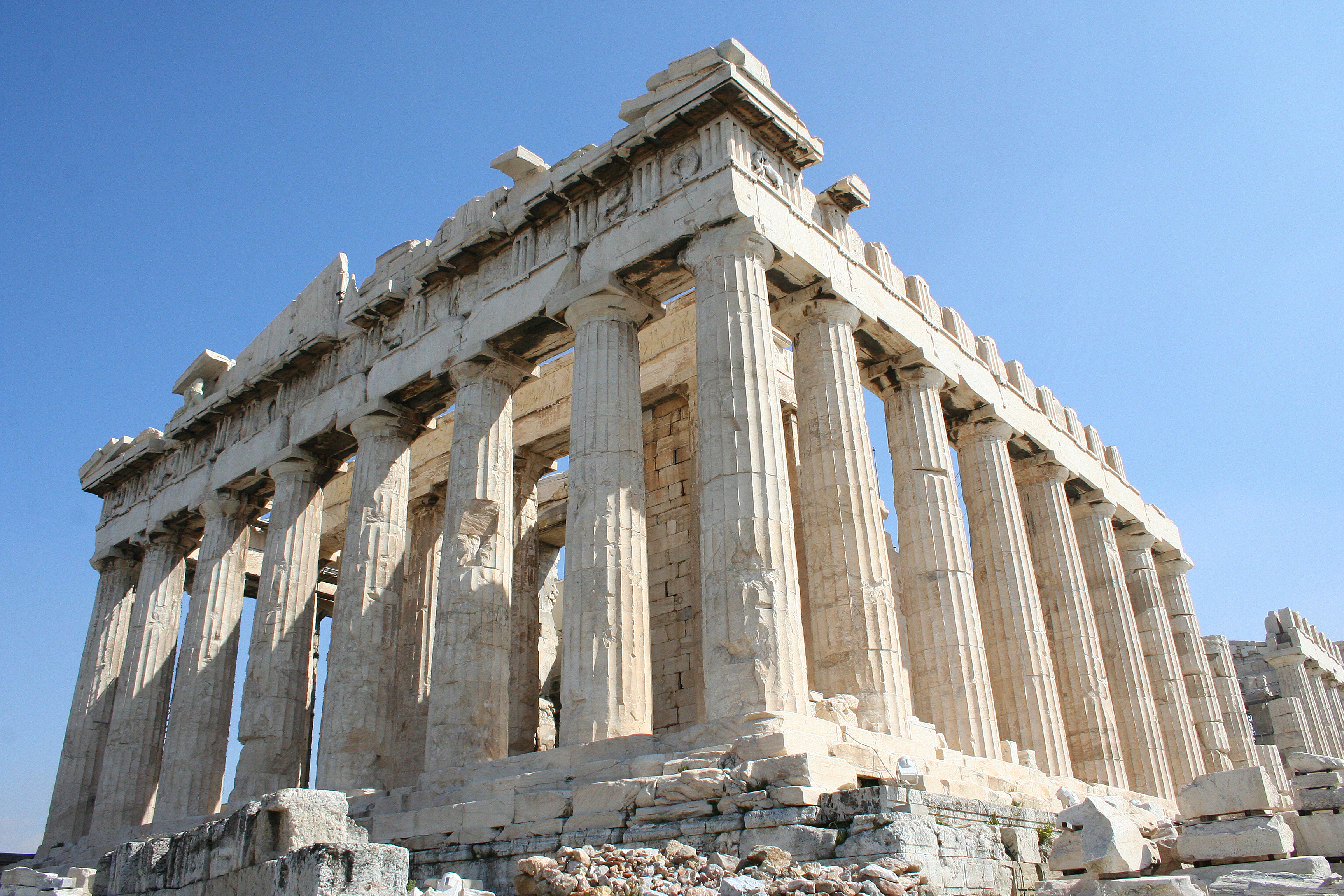 Parthenon